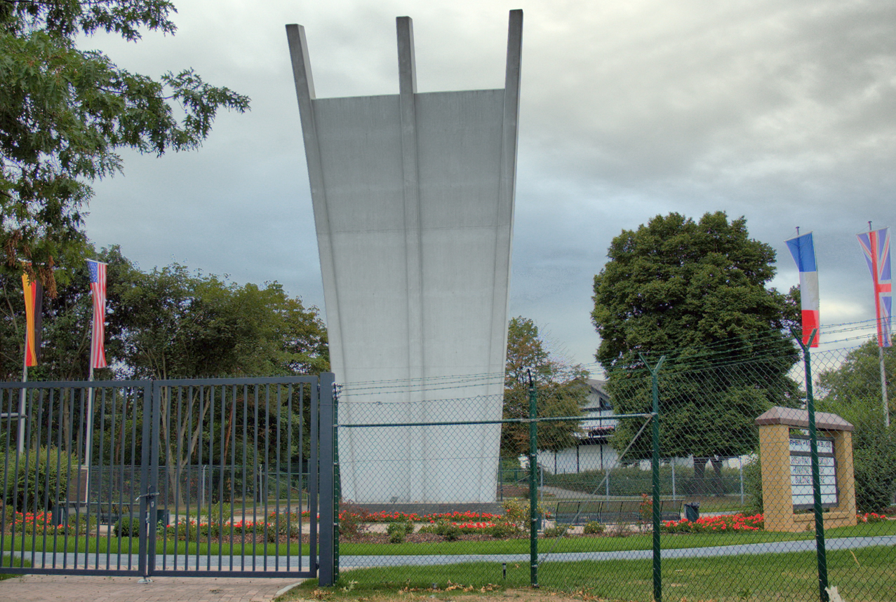 Aitlift Monument in Frankfurt Germany